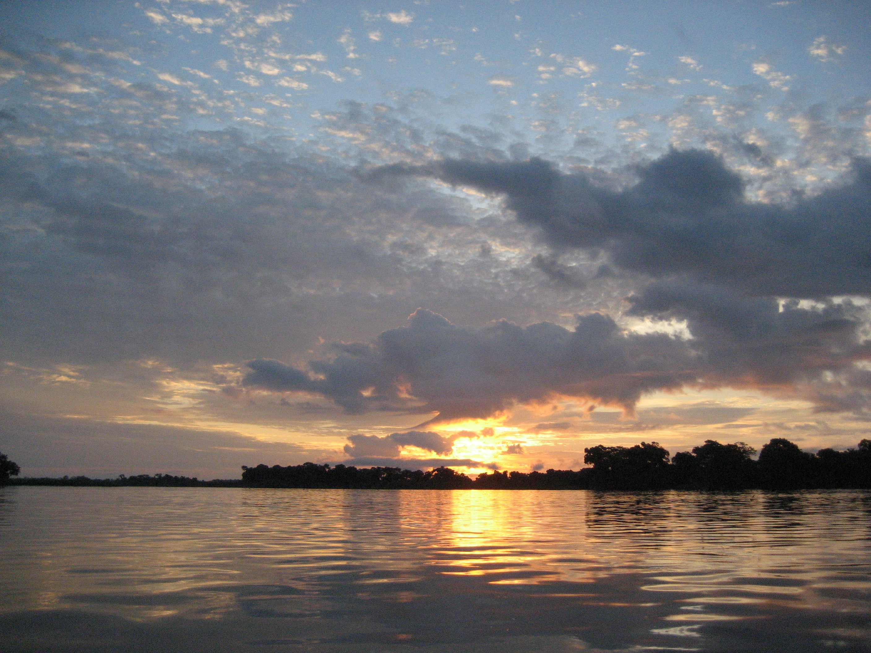 Sunrise on the Congo river, between the CR and the DRC, near Mossaka. Taken from boat.